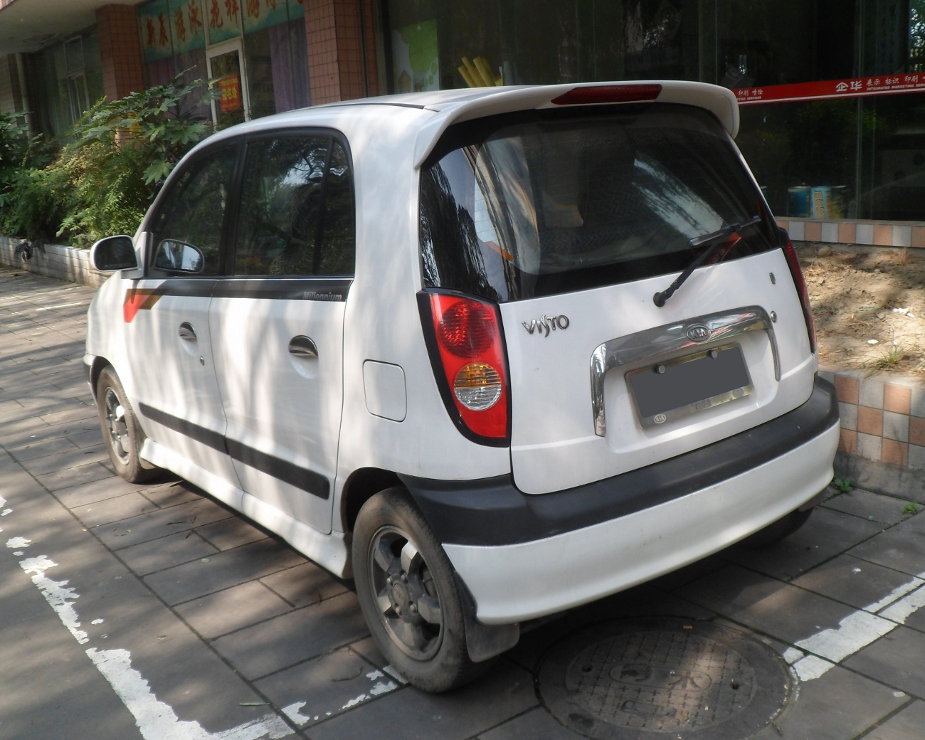 Kia Visto photographed in Chengdu, Sichuan province, China.